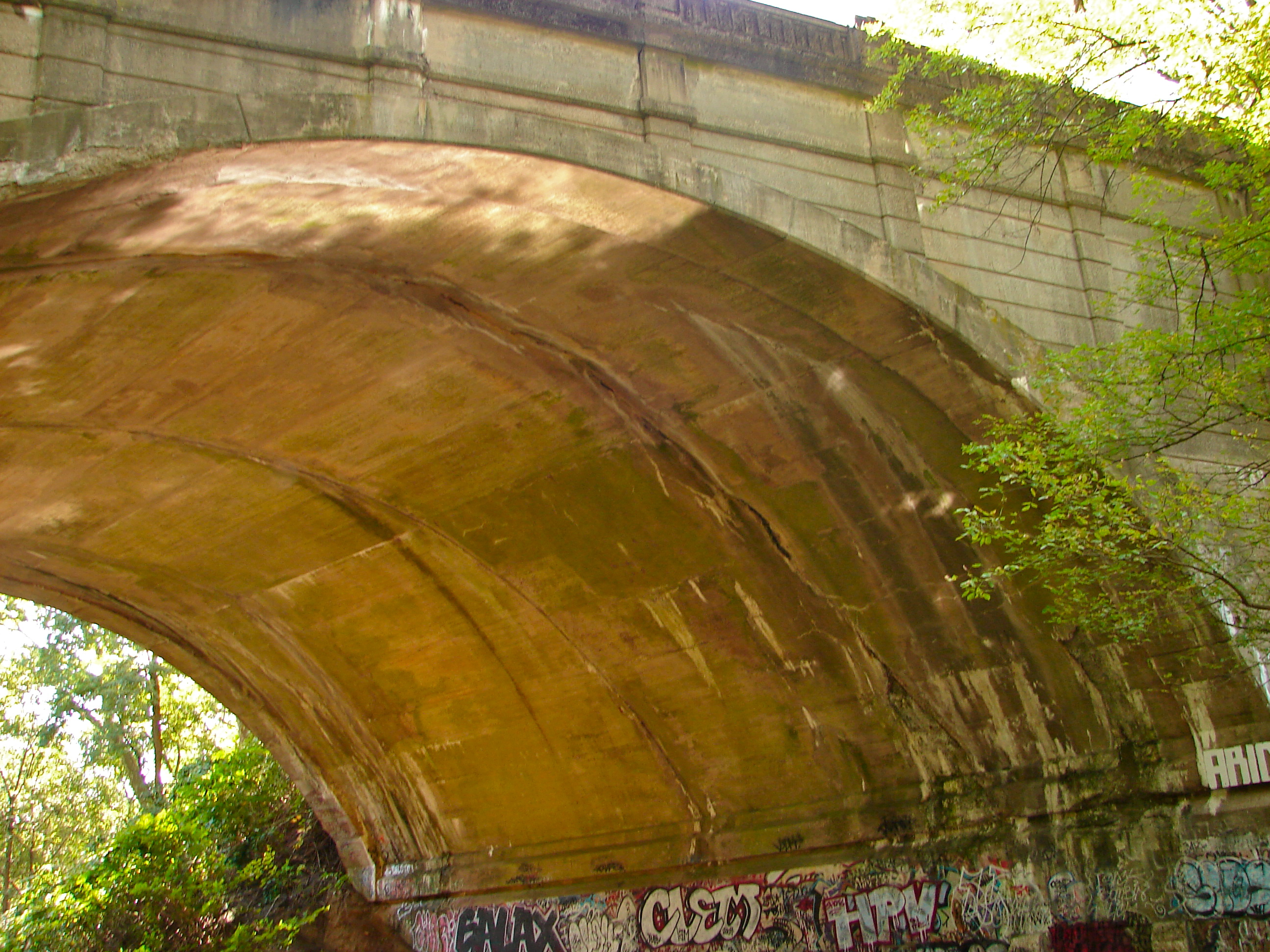 Holme Avenue Bridge on the NRHP since June 22, 1988. At Holme Avenue over Wooden Bridge Run in the Pennypack neighborhood of NE Philly